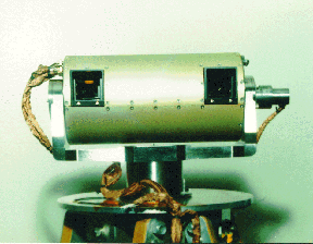 Camera Instrument for Mars Pathfinder